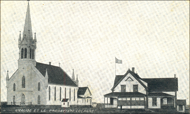 The church and the rectory of Cocagne, New Brunswick, in the first half of the 20th century (1923?).